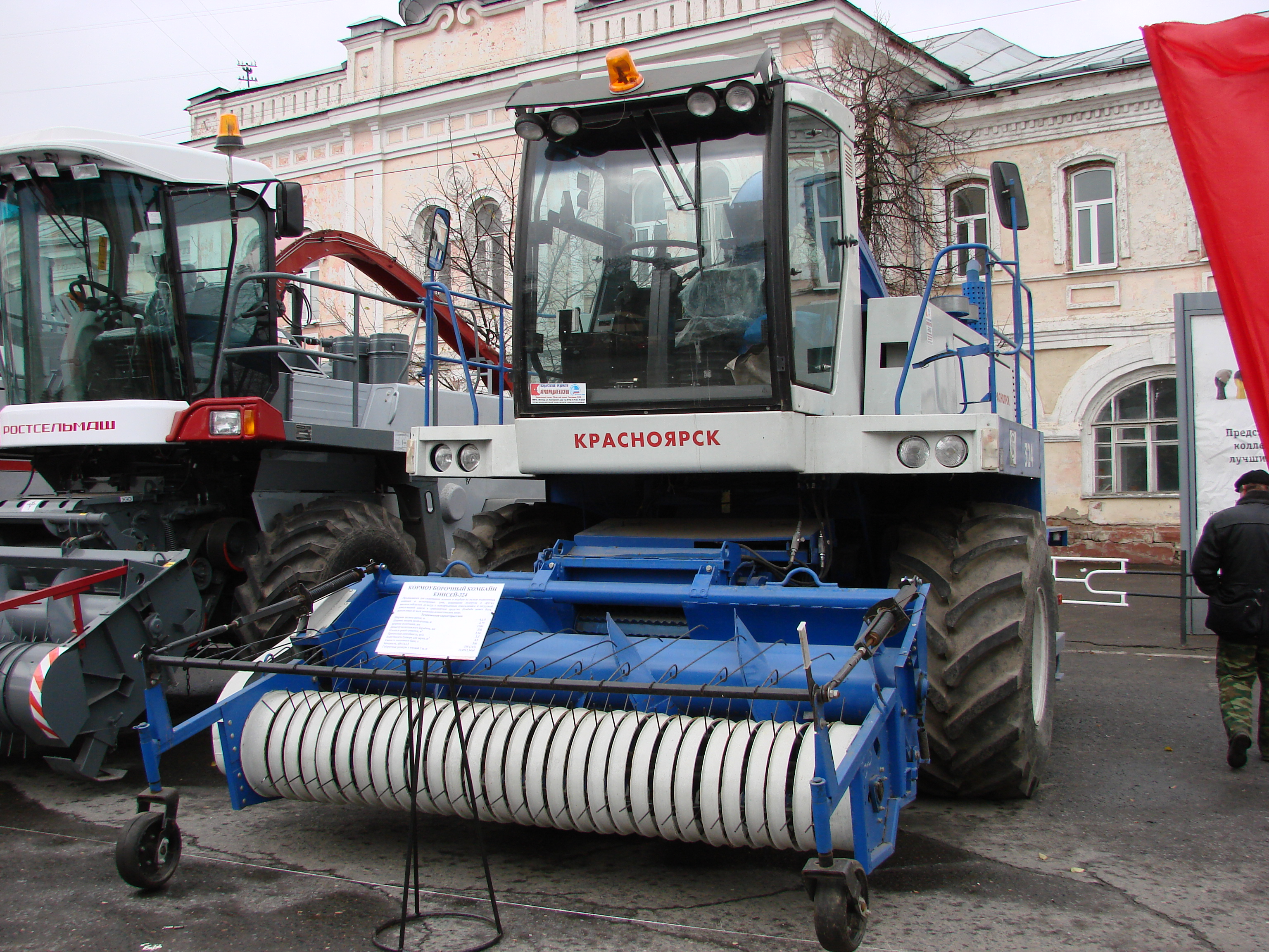 Russian forage harvester Enisei-324 by Krasnoyarsk Combine Harvester Plant